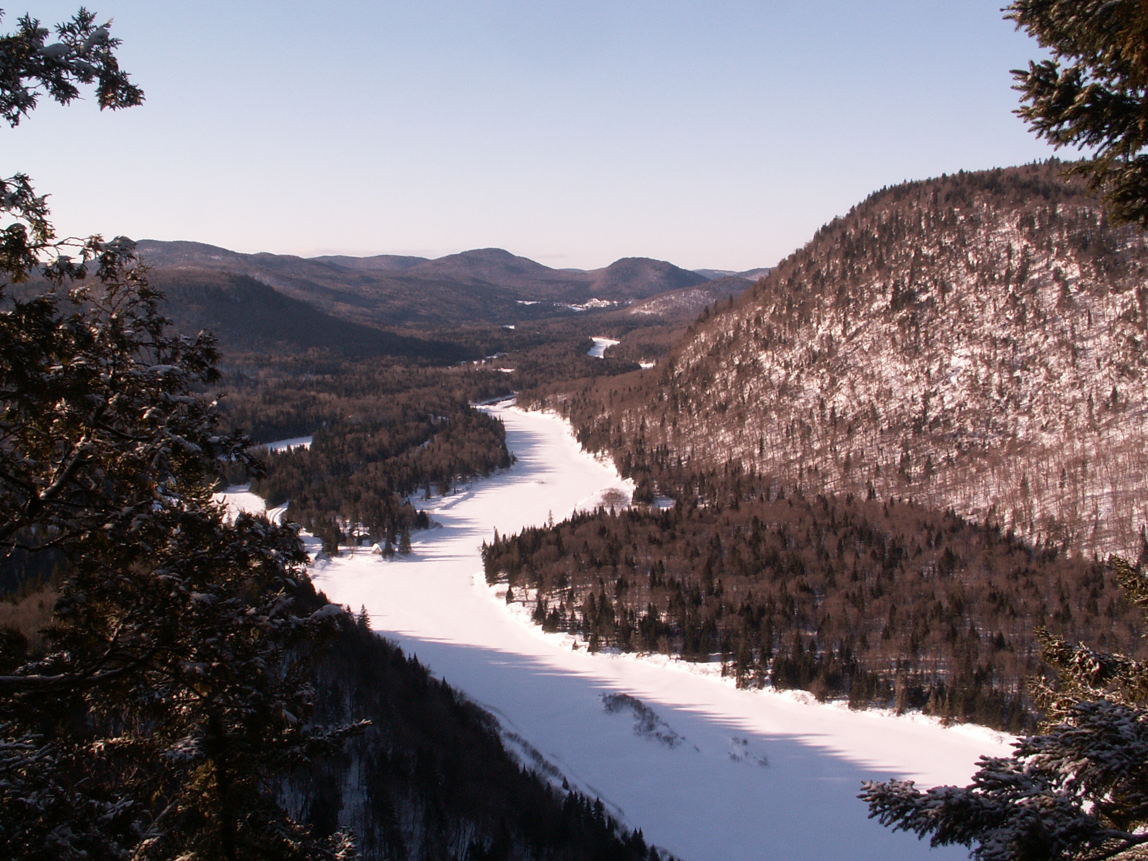 Jacques-Cartier River in winter, Quebec, Canada. Downstream view from L'Épaule hill, Jacques-Cartier National Park.